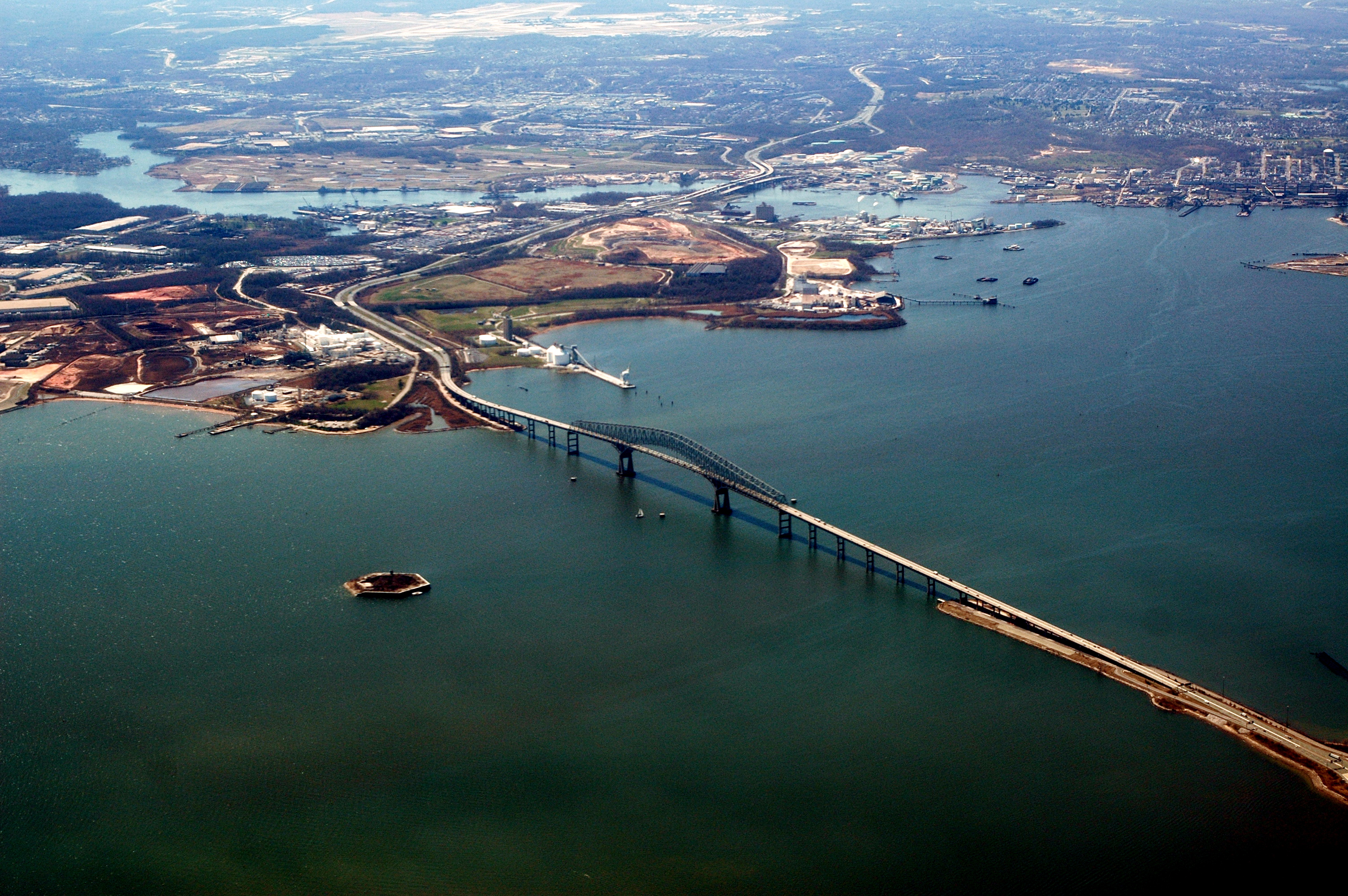 The Francis Scott Key Bridge spanning the Patapsco River in Maryland, USA.